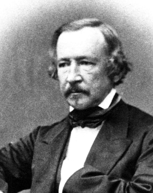 Zacharias Topelius.